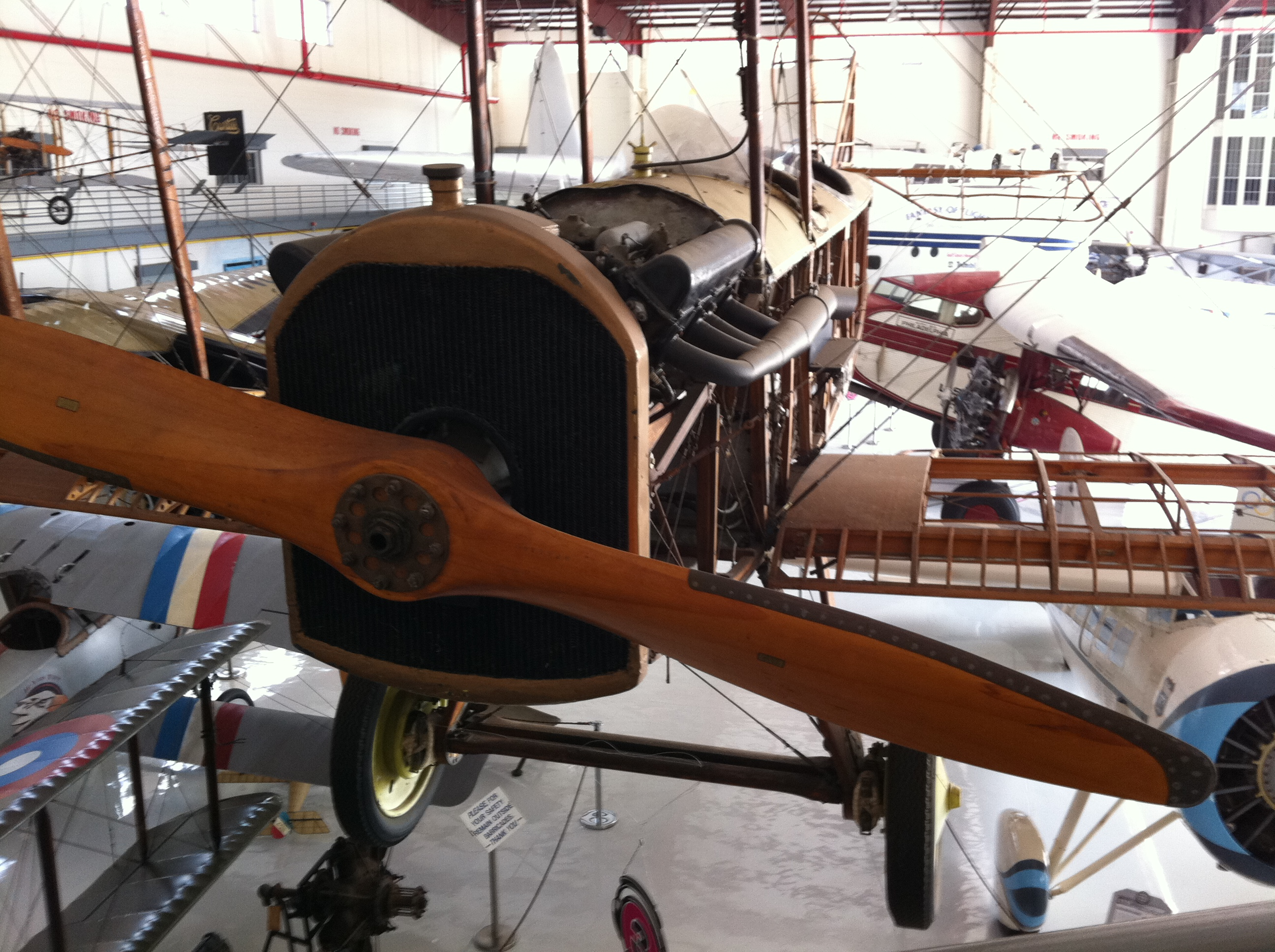 Fantasy of Flight's Standard J-1 appeared in the films The Spirit of St. Louis and The Great Waldo Pepper.